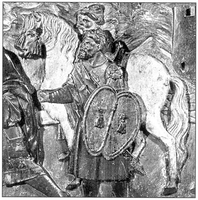 The classic Iberian Jennet, from a contemporaneous altar retablo depicting the surrender of Granada in 1492.